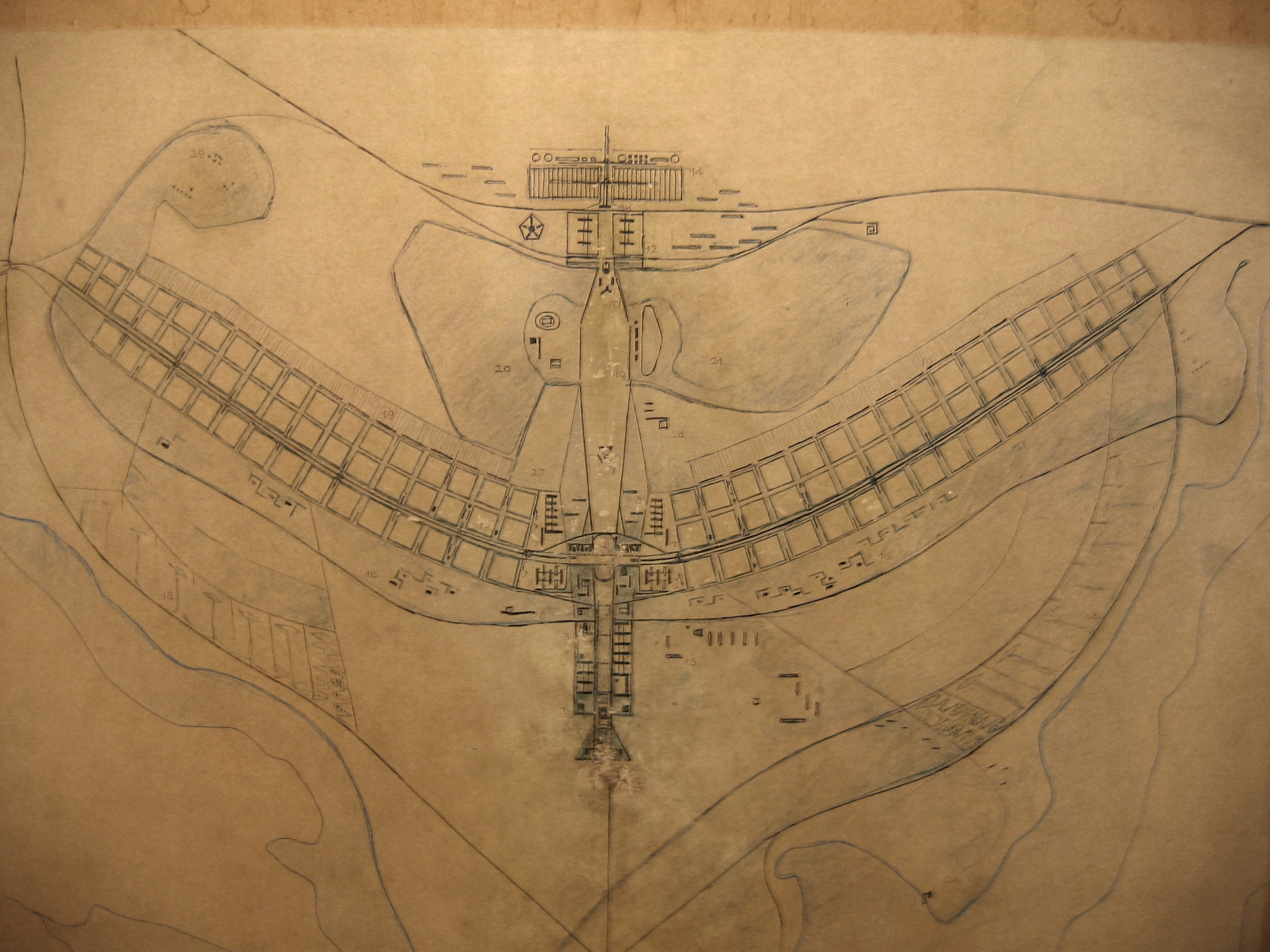 One of the first plans of Brasília. A digital photo of the original plan, which is on permanent public display at the O Espaço Lúcio Costa in Brasília.